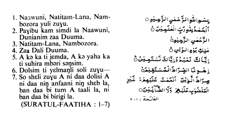 Scanned image of first chapter of the Quran translated into Dagbani language by Sheikh M. Baba Gbetobu.